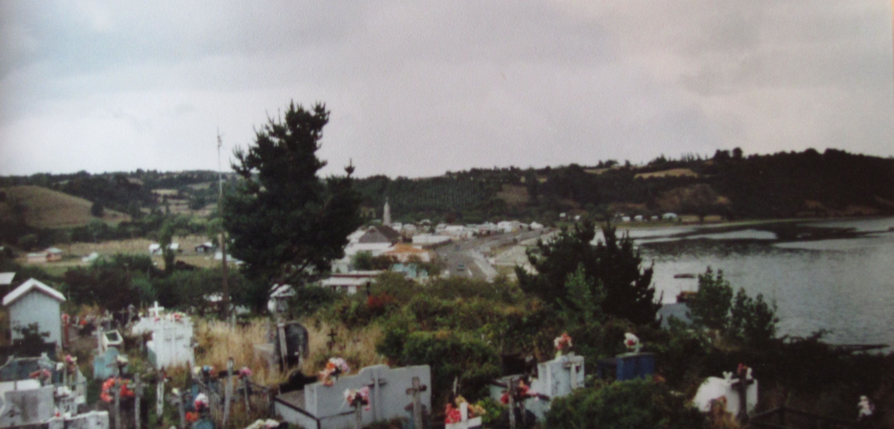 General view of the village Aldachildo, Isla Lemuy, Provincia de Chiloé, Chile